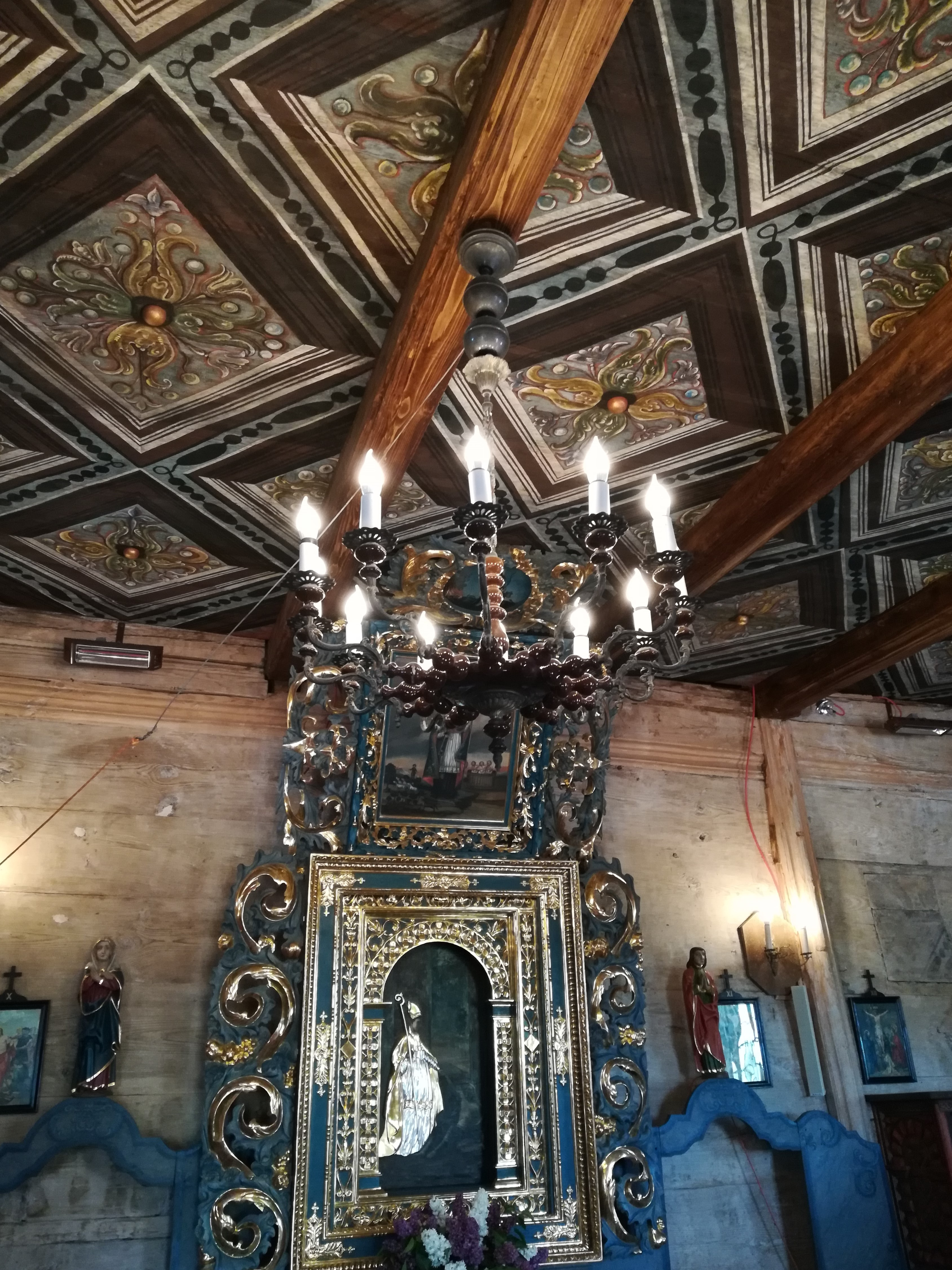 Church of Saint. Stanisław Biskupa in Chotelek Zielonym - a beam ceiling with preserved Renaissance polychrome from the 16th century, depicting coffers with rosettes.